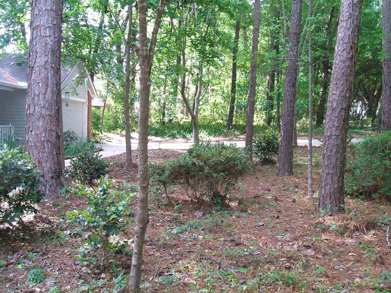 Photo taken by user with Fuji 500 digital camera.